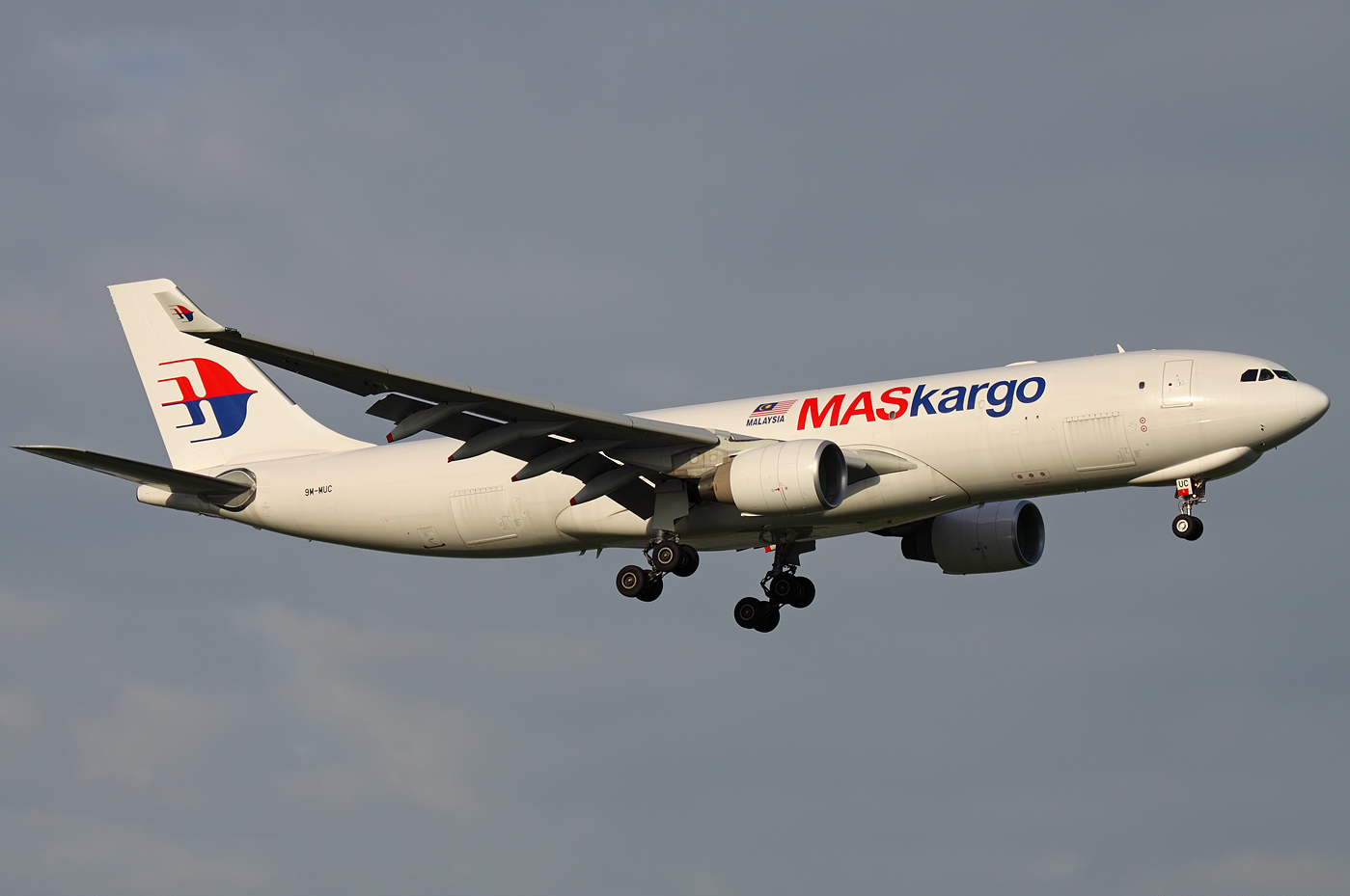 A MASkargo Airbus A330-223F on short final to Suvarnabhumi International Airport (BKK / VTBS)